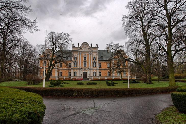 Czempiń Pałac Ludwika Szołdrskiego